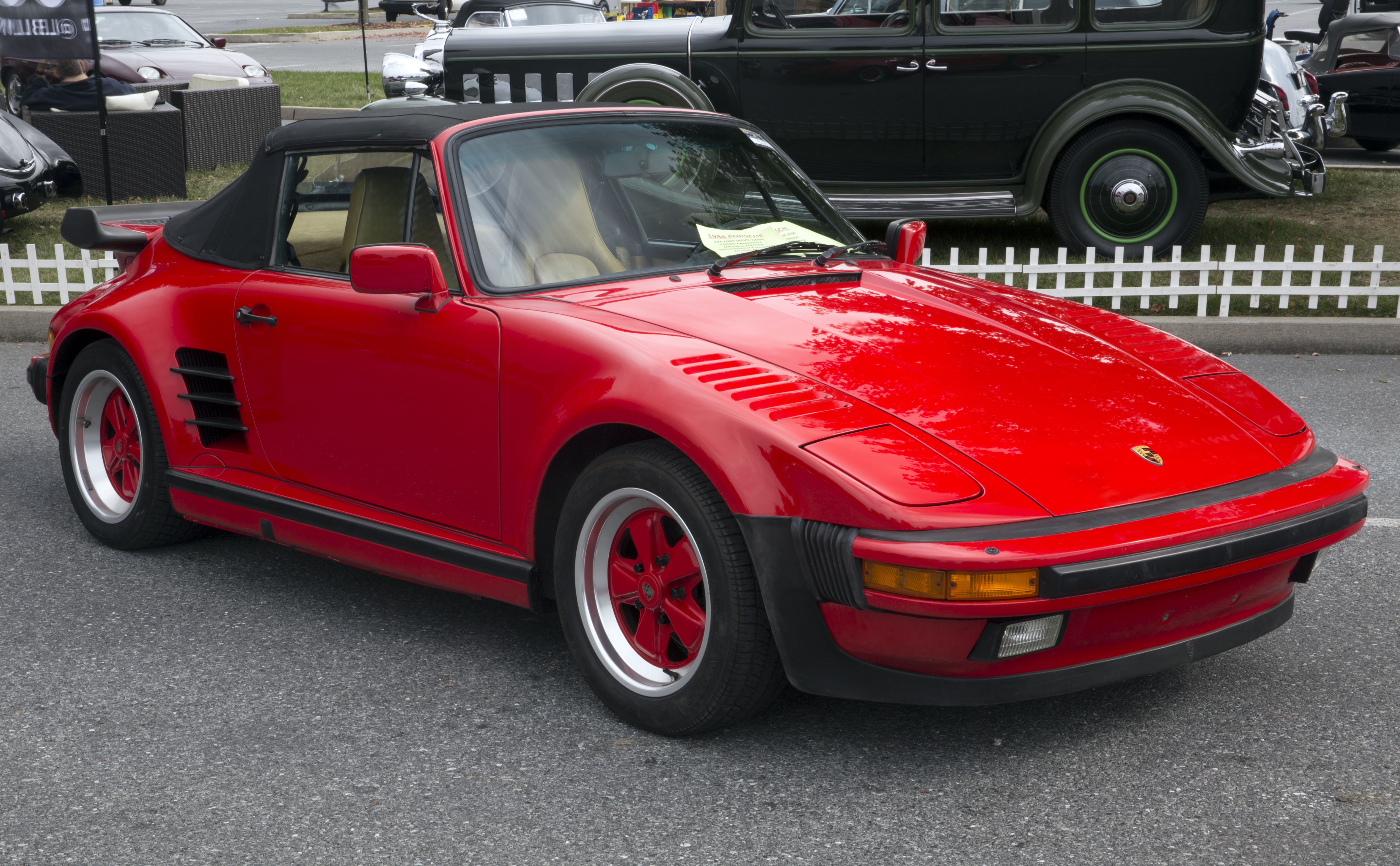 1988 Porsche 930 Turbo Cabriolet Flachbau (genuine M505 option) at Hershey 2019. One owner, many dollars.